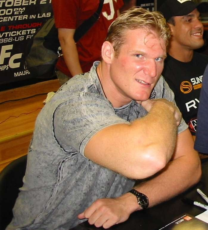 Josh Barnett at an autograph signing at a Best Buy in Torrance, CA.